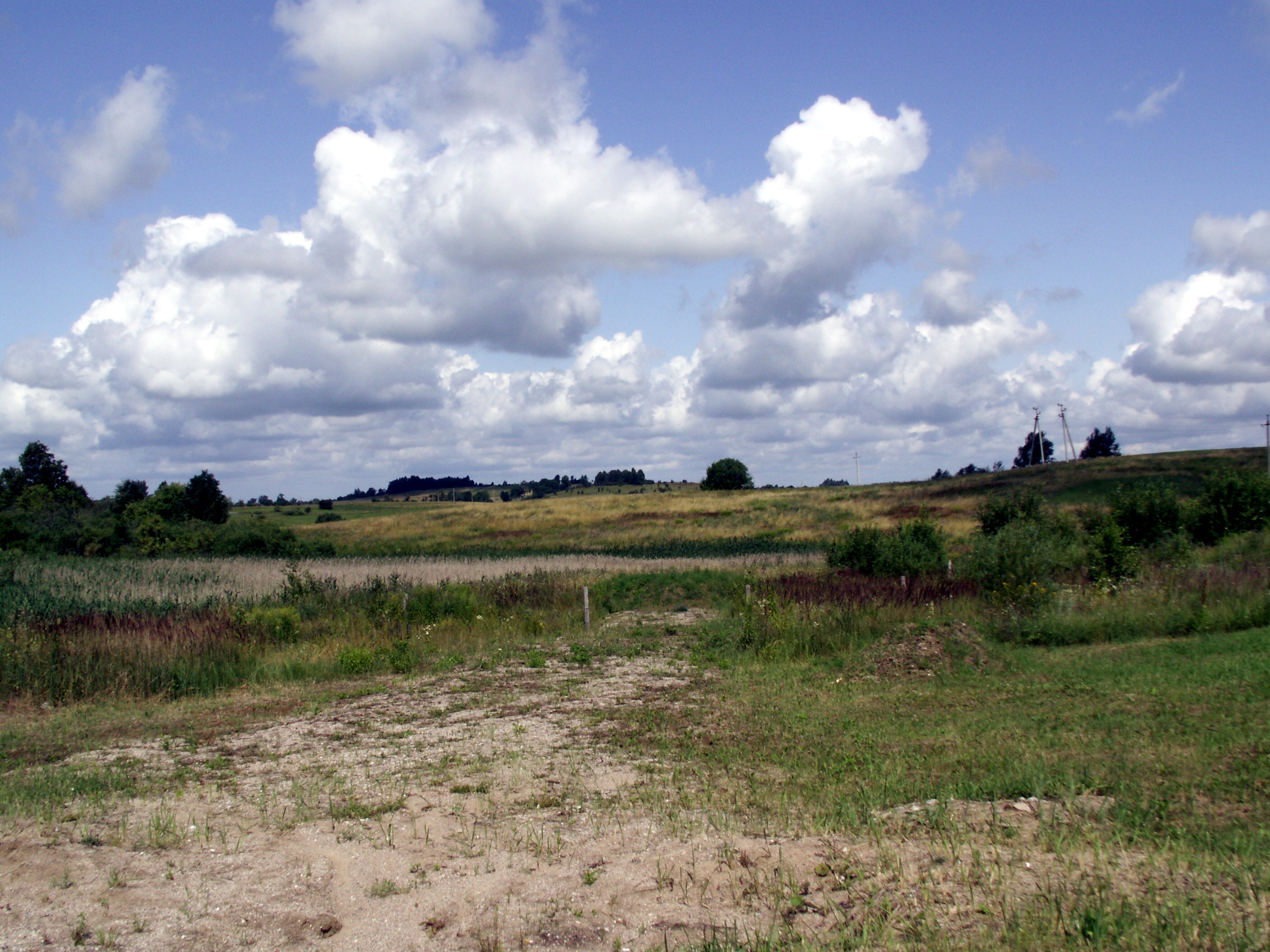 Romincka Forest in Kaliningrad oblast